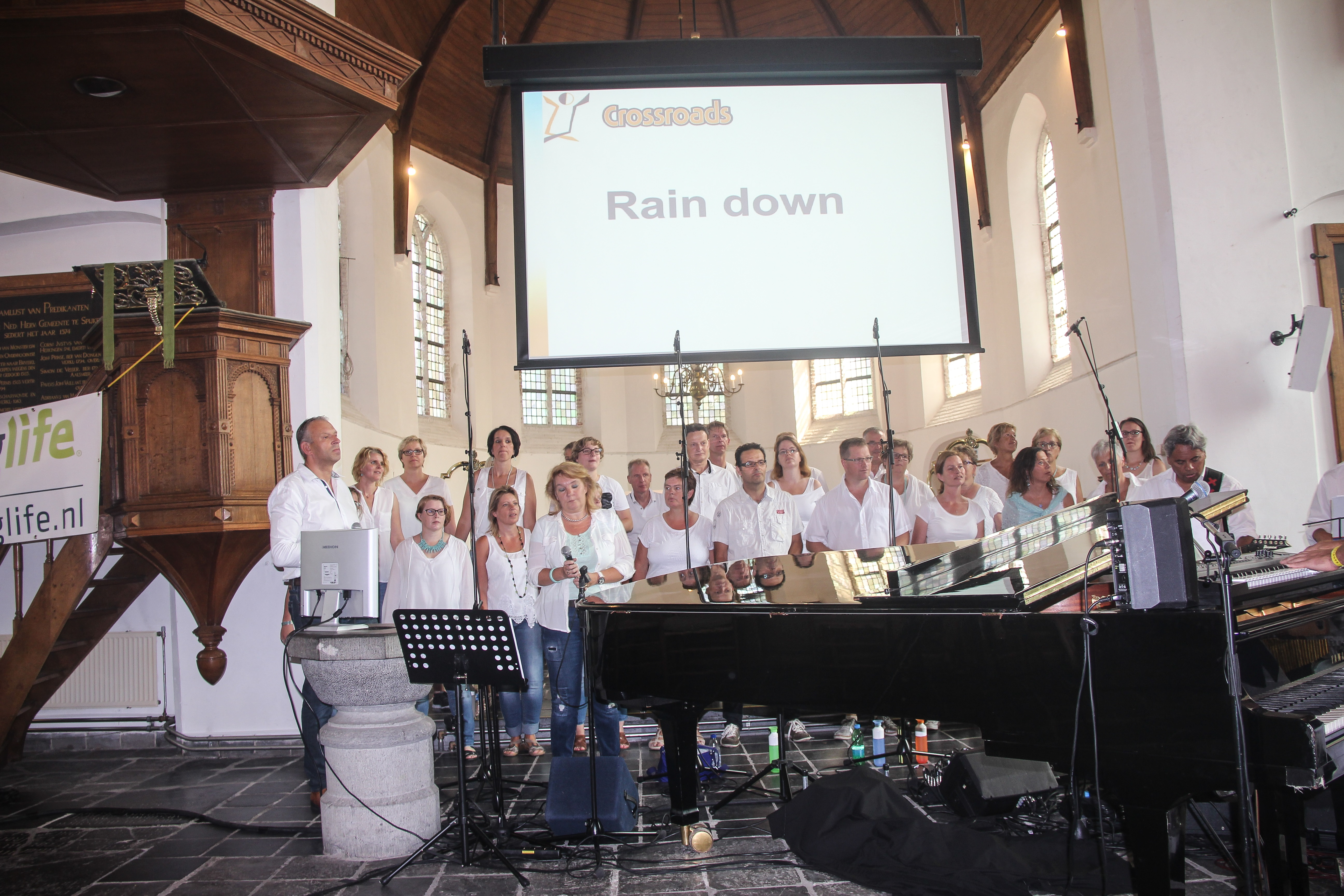 Choir during a performance in the village church in Spijkenisse